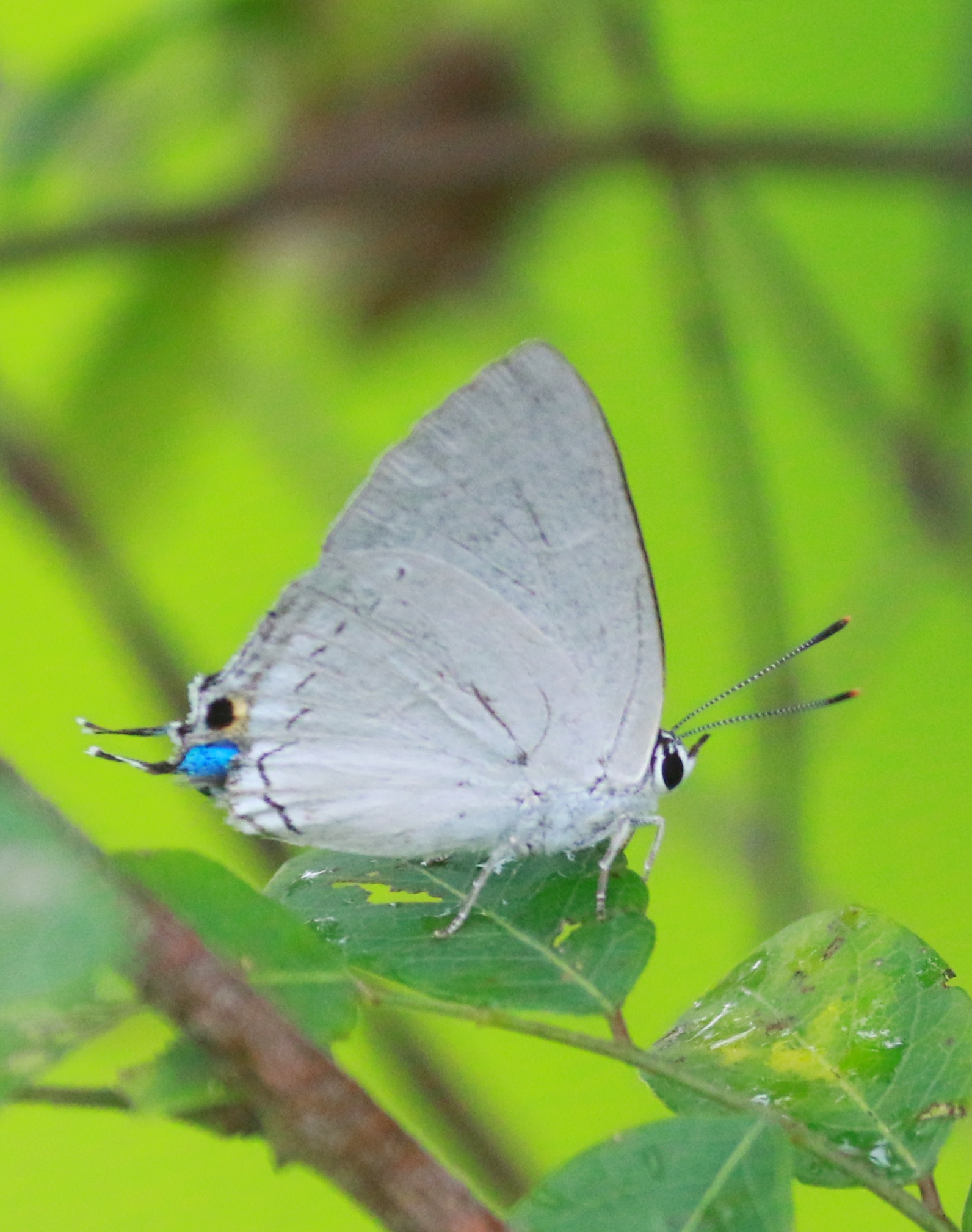 Peacock royal butterfly